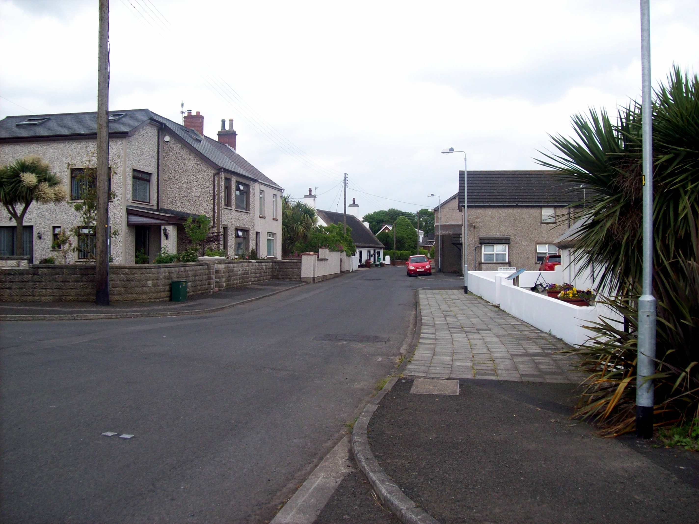 Photograph of Boneybefore village, facing east, with the Andrew Jackson Cottage just visible on the right.